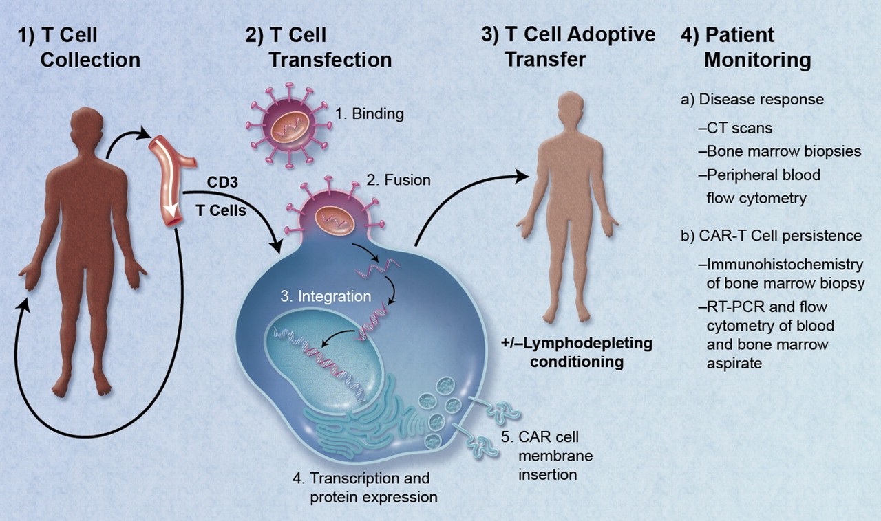 Depiction of adoptive cell therapy using CAR-modified T Cells.